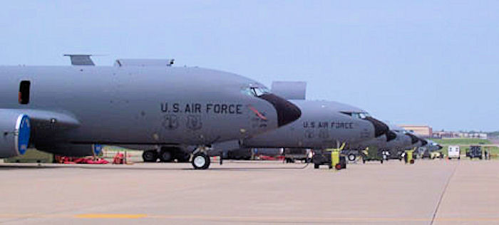 Undergraduate Pilot Training opportunities exist with the 507th Air Refueling Wing, Air Force Reserve, at Tinker Air Force Base, Oklahoma. The 507th ARW flies the KC-135R Stratotanker performing air refueling missions worldwide.